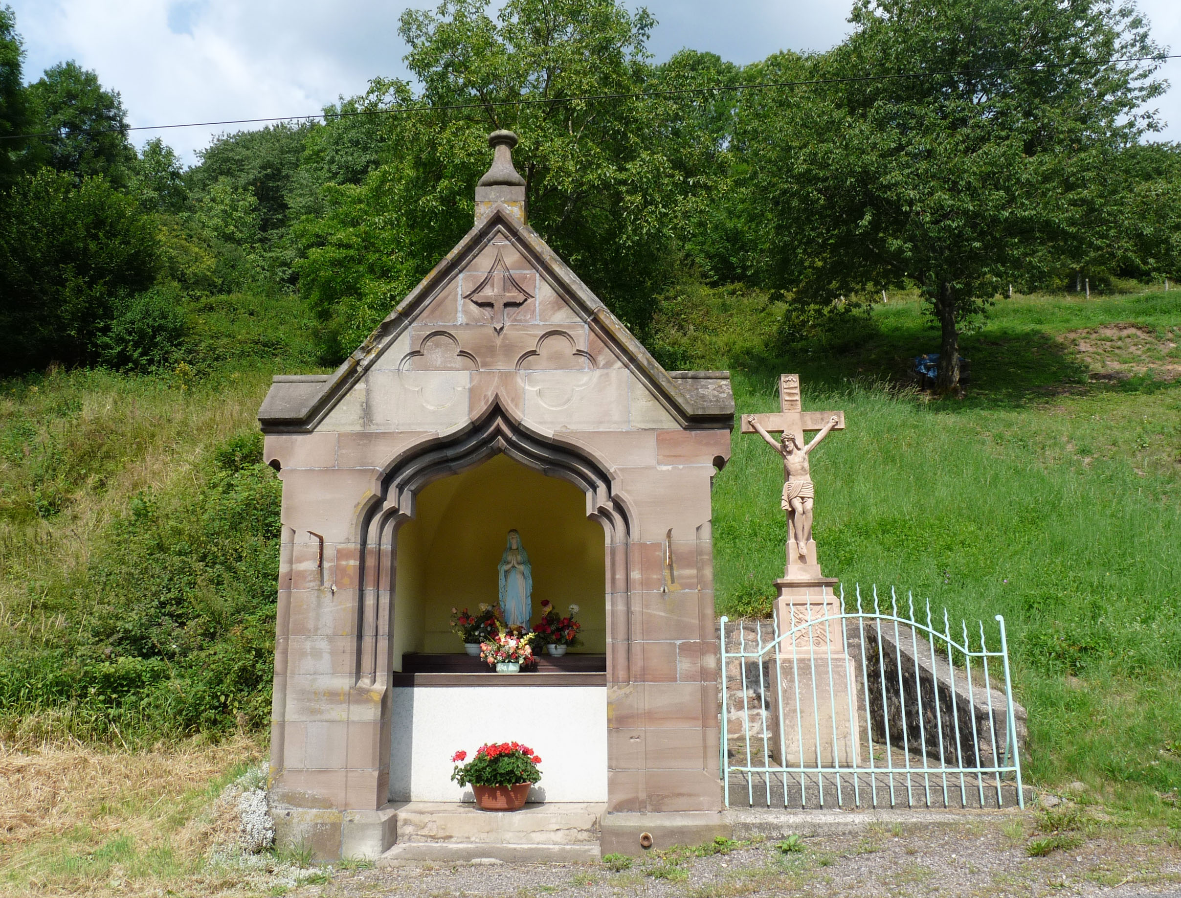 Chapel and cross in Natzwiller (Bas-Rhin)